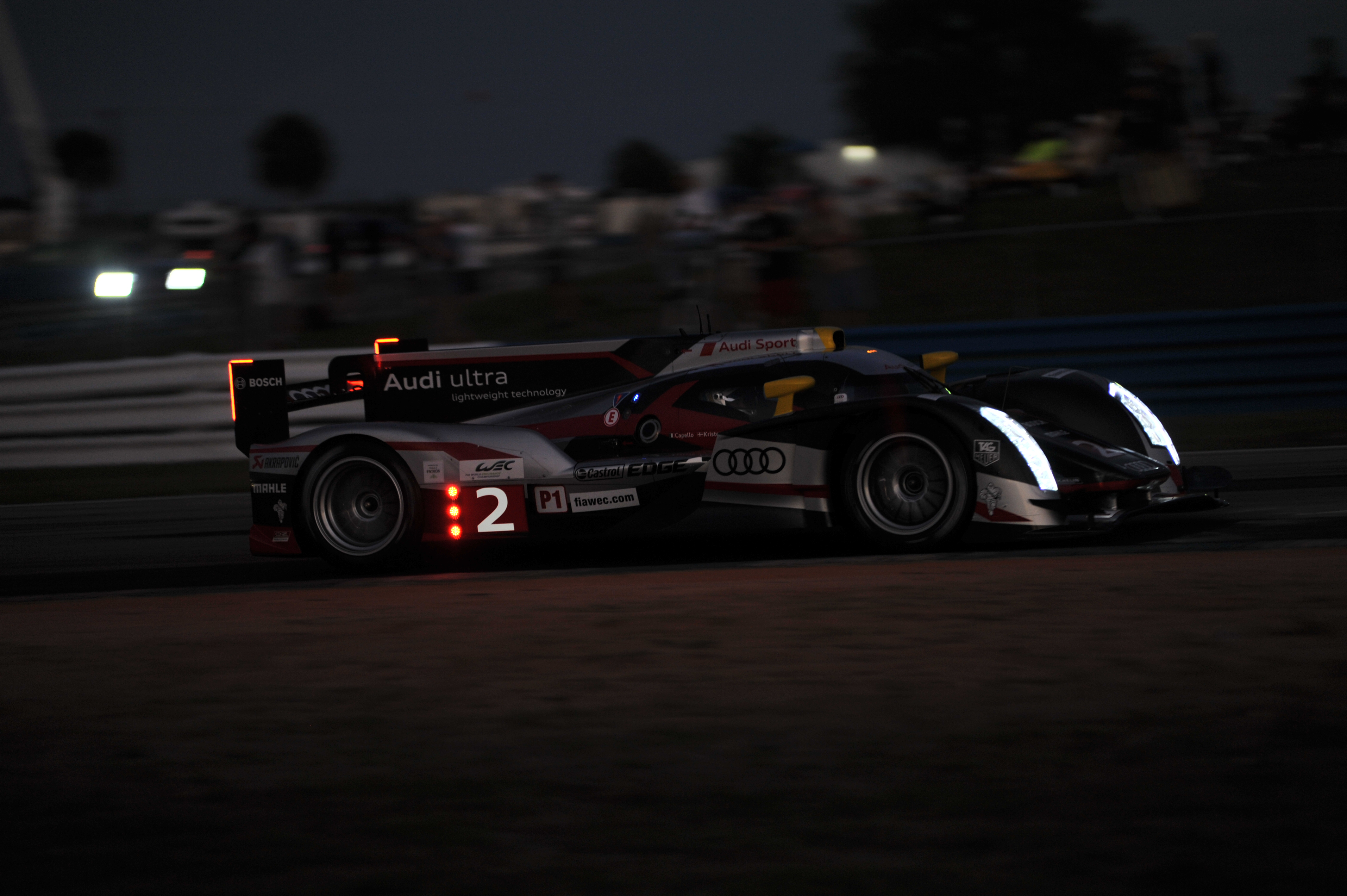 The #2 Audi LMP1 fielded by Audi Sport Team Joest at Sebring International Raceway for the 2012 race, where it went on to place first overall.